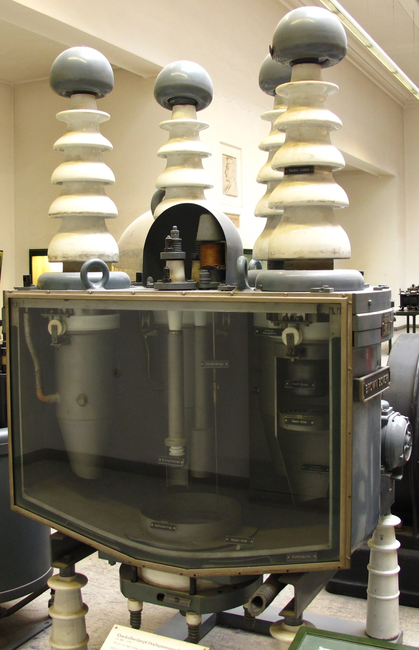 First mercury arc rectifier for high voltage. Sectioned and with the mercury filling removed. This rectifier was used at the HGÜ Zürich-Wettingen (HGÜ test facility) between Wettingen and Zürich. The HVDC line was 25 km long and was operated with a direct voltage of 50 kV.